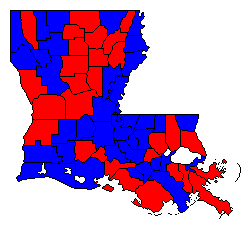 Self-created image showing county-by-county results of the 2002 US Senate election in Louisiana